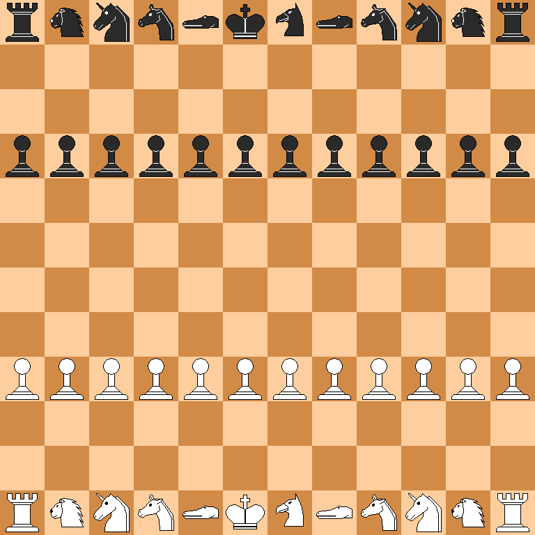 Grande Acedrex opening setup diagram.